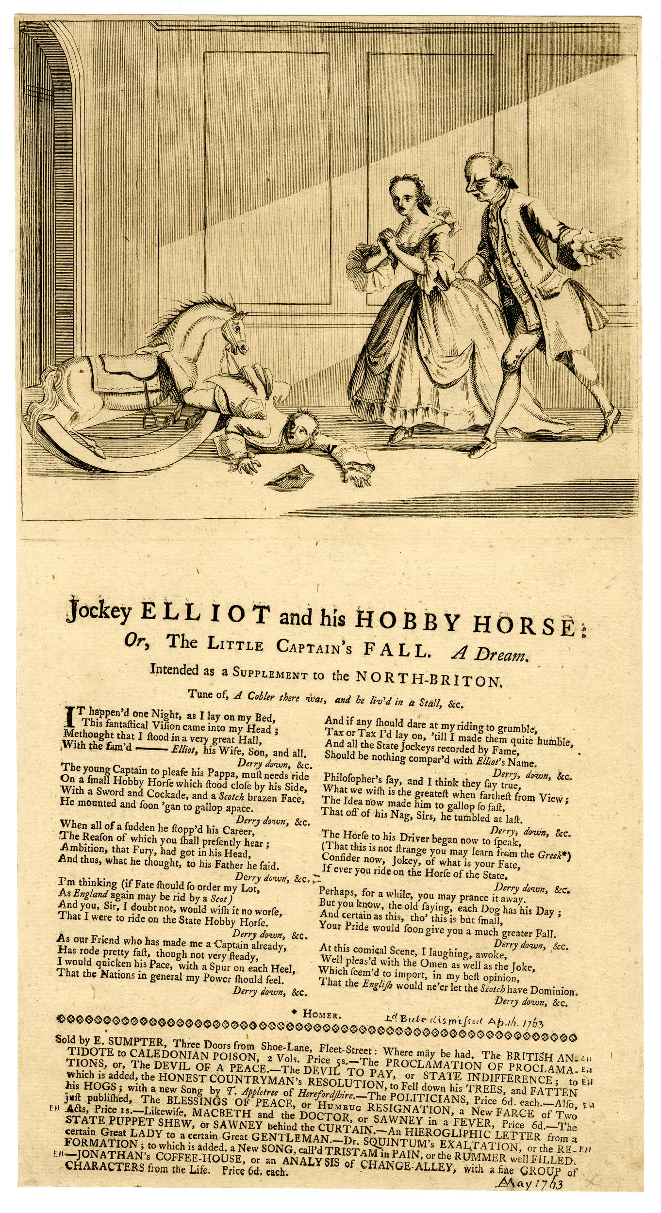 Satire on Sir Gilbert Elliot, a supporter and beneficiary of Lord Bute: Eliot is shown entering a room with his wife, alarmed to find their son (also Gilbert Elliot, the future Earl of Minto) falling from a rocking-horse; with letterpress title and verses in two columns, and with one vertical segment of type ornament. ([London], Sumpter: [1763])